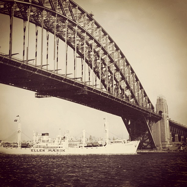 The Ellen Maersk passing under the Sydney Harbour Bridge